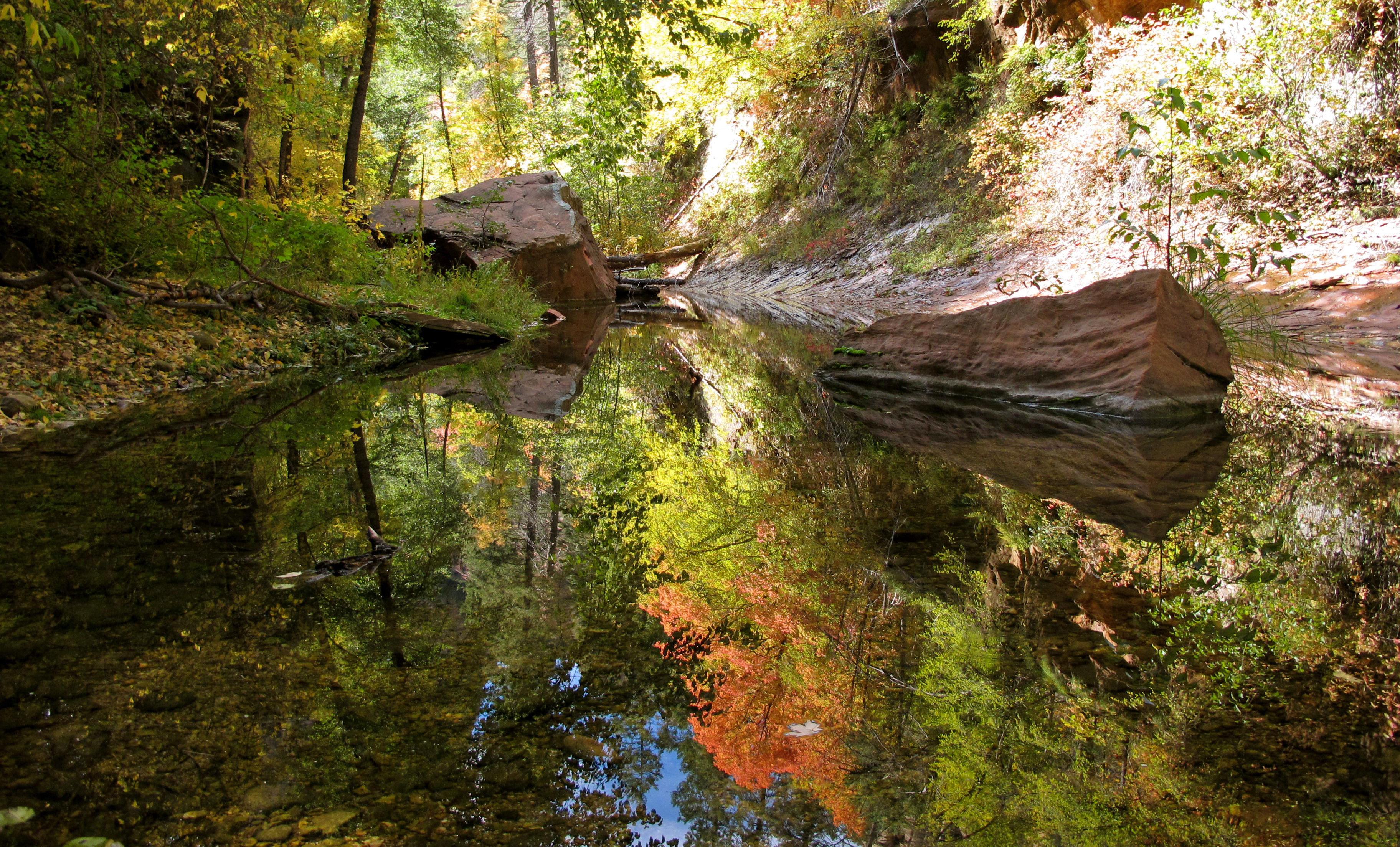 West Fork of Oak Creek. For more information on hiking at this location, visit Photo taken 10-24-10 by Larry Lane, an employee of the Tonto National Forest. Credit: Larry Lane.